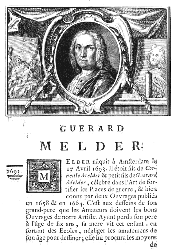 Biography of Guerard Melder with engraved portrait featured on page 280 of "Tome Quatrieme" of Jean-Baptiste Descamps' "La Vie des Peintres Flamands", 4 volumes (I 1753, II 1754, III, 1760, IV 1764)